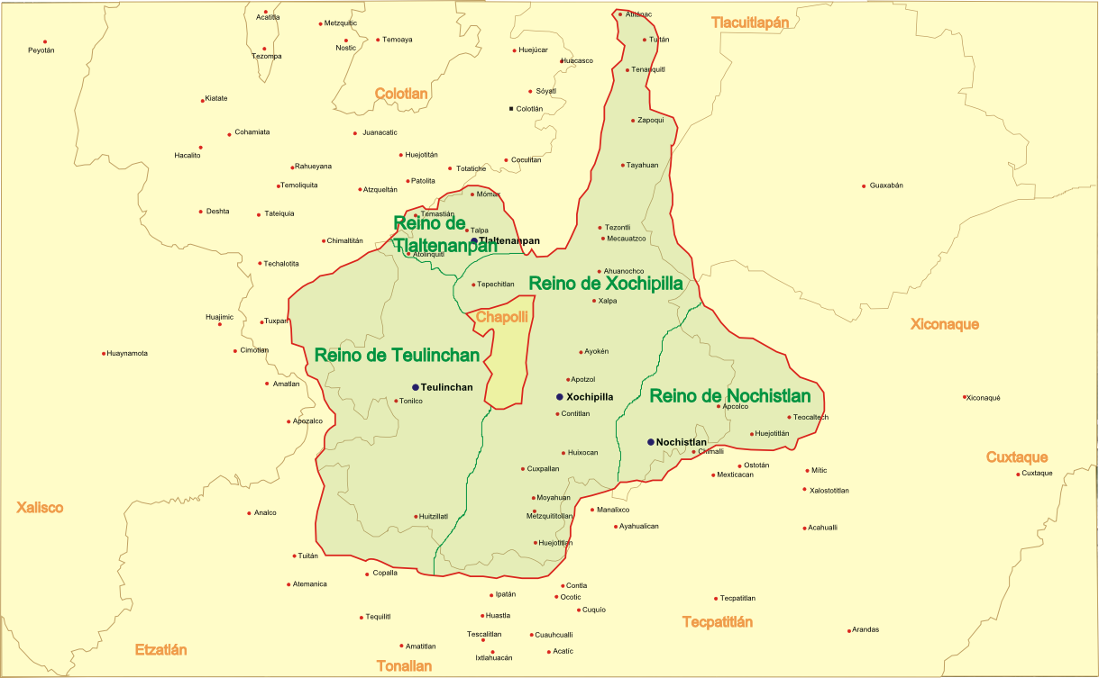 Political nations of the Caxcan people before the conquest of México pre-columbian. Nāhuatl: Caxcantecatl tlahtocayomeh, achto peualli in Hispaniatlahtokayotl.